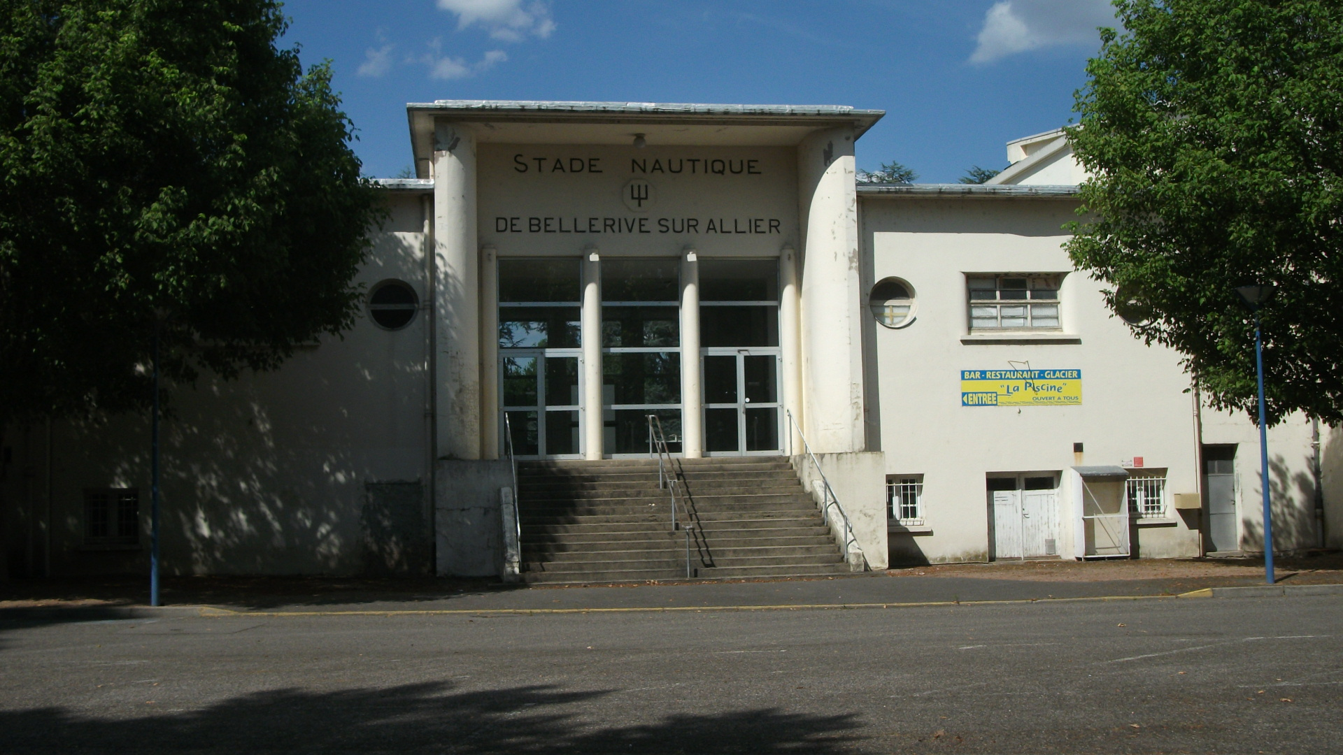 Front of the old swimming stadium in Bellerive-sur-Allier, closed in 2007. Entries will be walled up a few months later.